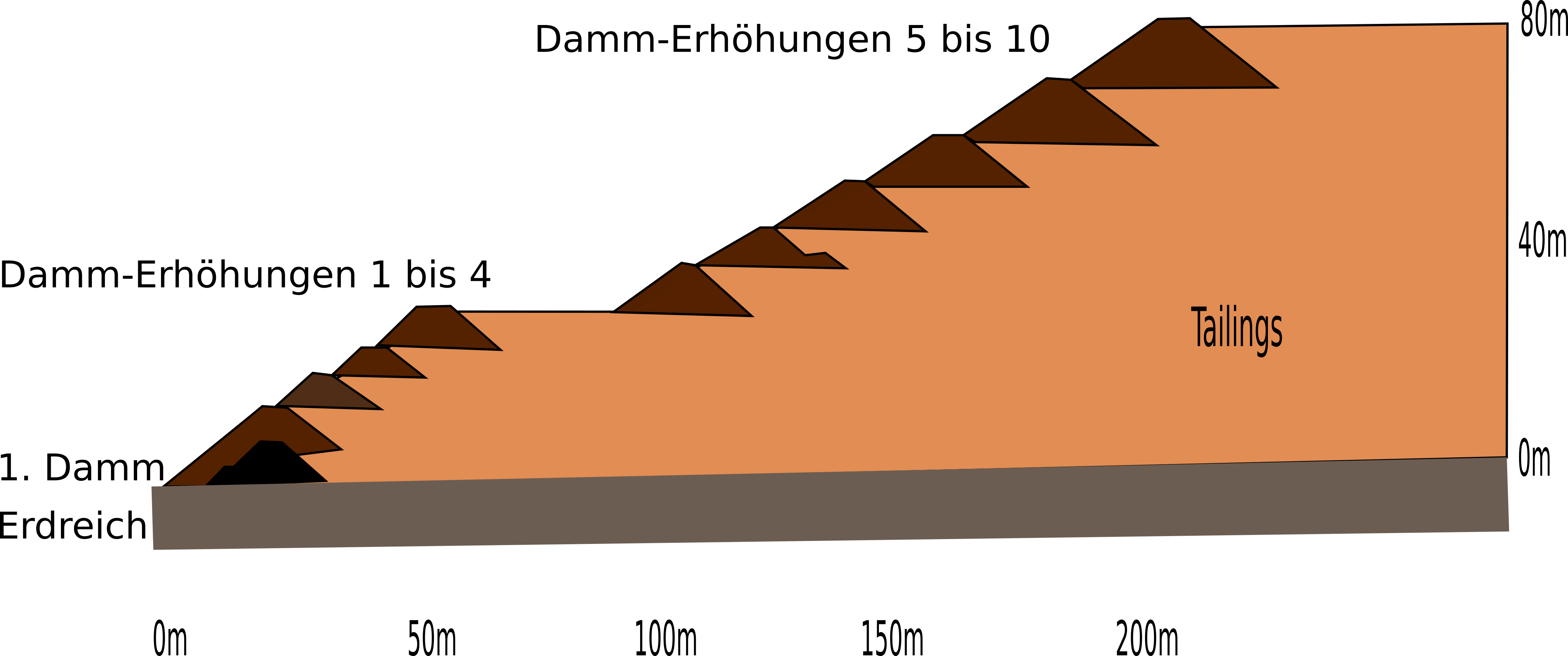 Brumadinho dam "Barragem I". Cross section through the broken dam from the west to the east. The dam is based on soil, not on solid rock. The first dam (black) had been build 1976 with coarse rubbel from mining. In the following decades the dam had been hightend several times. Dam raisings 1 to 4 had been done with compacted soil, each additional small damm had contributed 5 - 8 m in hight. In later years the dam raisings had been done with dams build out of dried tailings. The final dam reached a hight of 86 m.